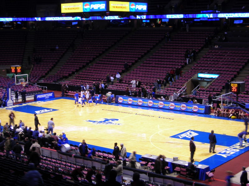 Photo taken by myself, January 19, 2007.